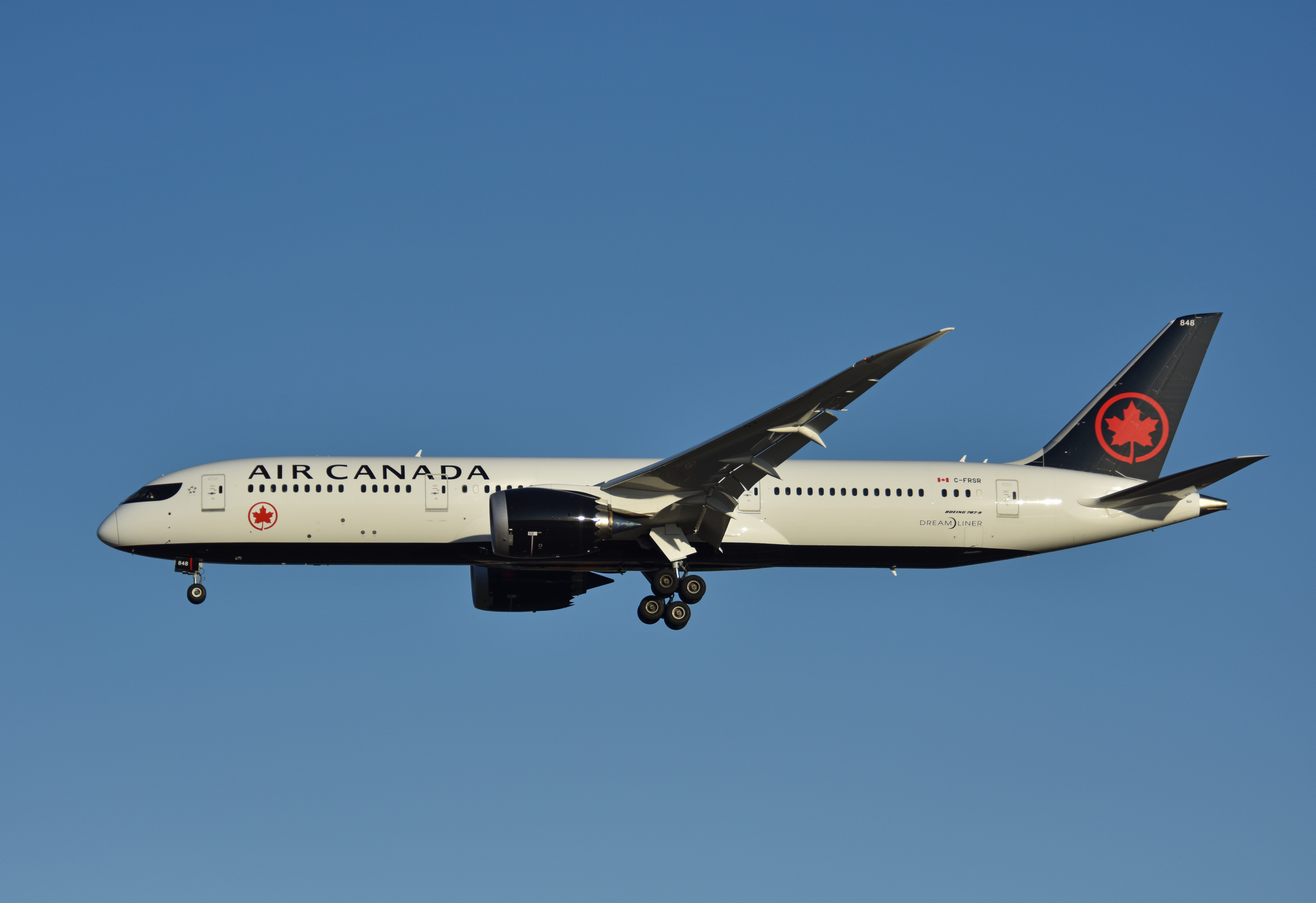 Air Canada 29 from Vancouver.